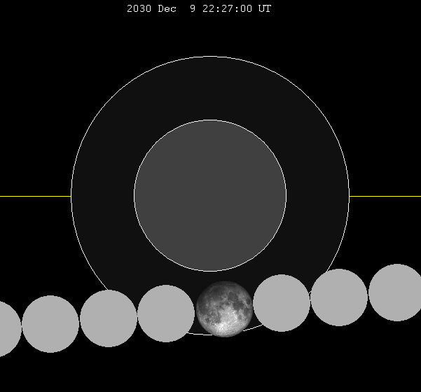 December 2030 lunar eclipse chart of moon's total lunar eclipse path through the earth's shadow. thumb